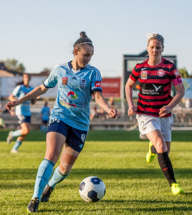 Olivia Price playing against Western Sydney Wandereres